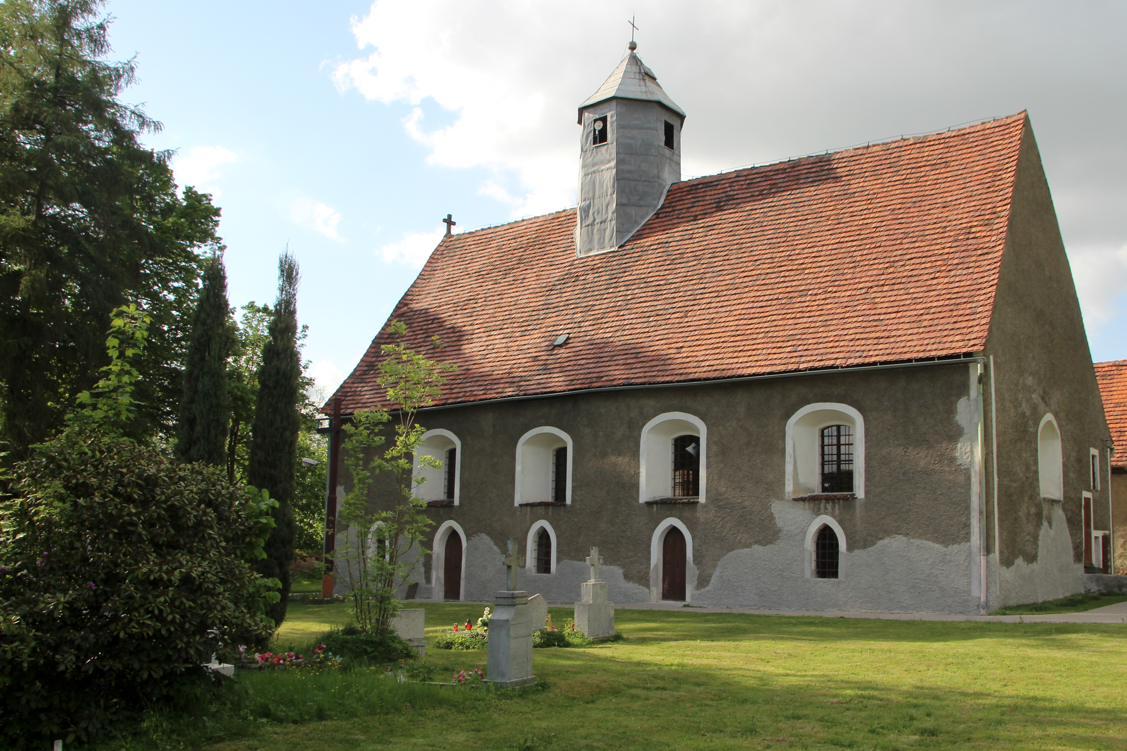 Church of the Assumption in Sławnikowice, Poland